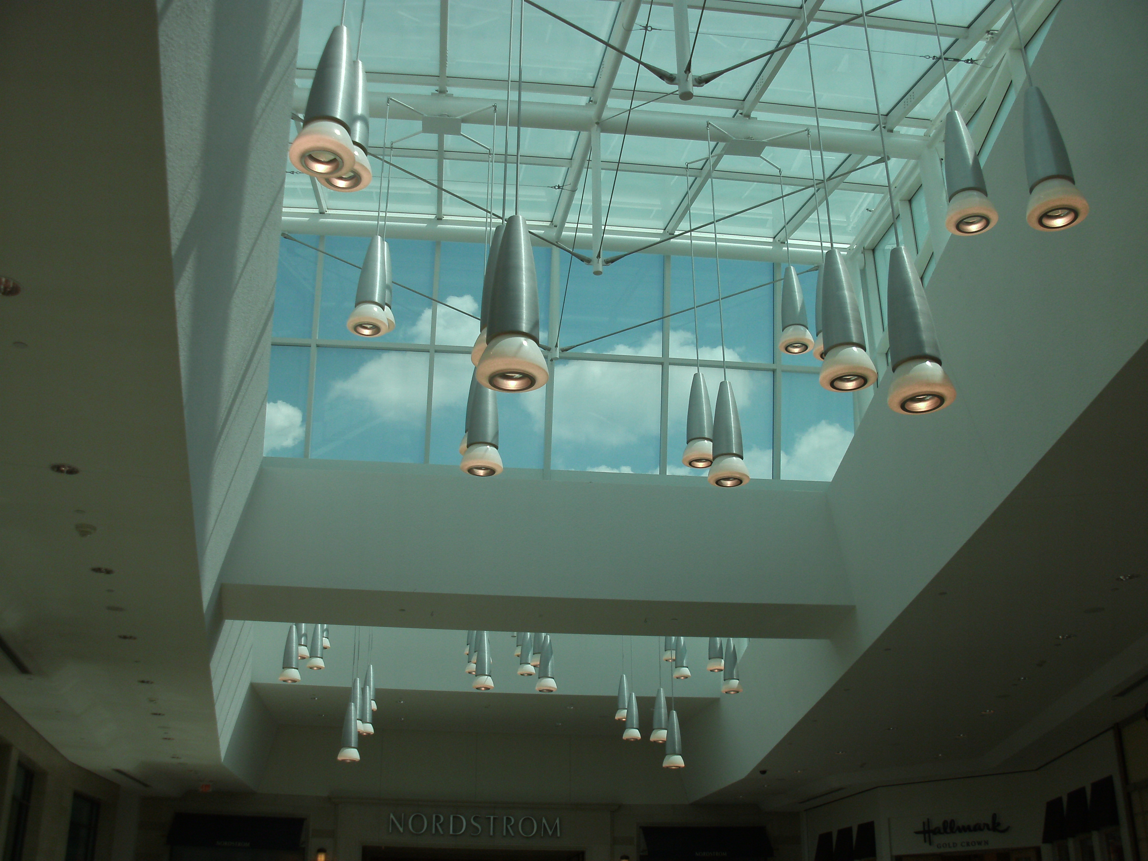 A skylight inside Twelve Oaks Mall of Novi, Michigan.